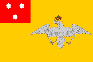 Civil flag of Wallachia, 1834-1861